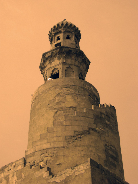 This minaret, with its only remaining original element being the square base, communicates with the mosque by way of a passage. Its second story is cylindrical which is in tern surmounted by later Mumluk restorations in stone. The original minaret was built of brick. This is Cairo's only minaret with a spiraling external staircase and the overall structure is unique in Egypt.